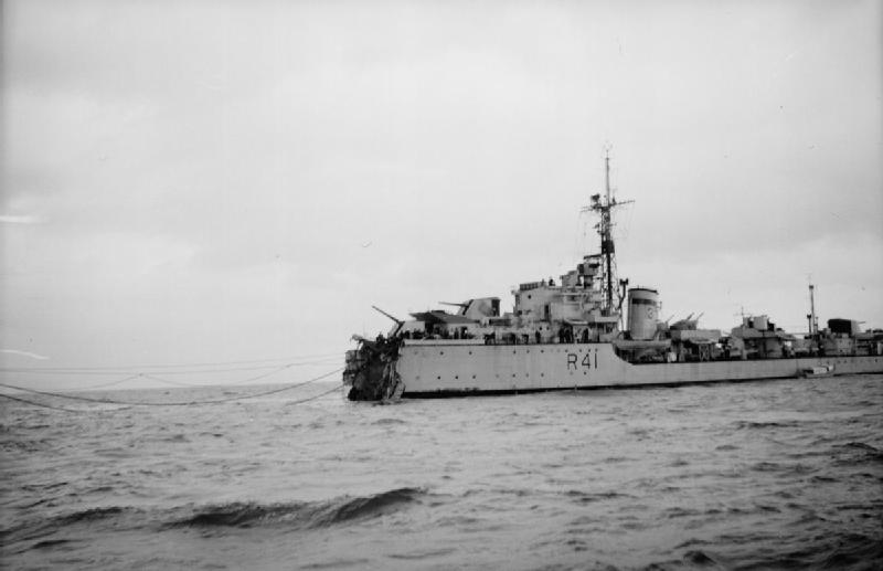 IWM caption : HMS Volage showing the damage (lost bow) sustained by an influence mine laid in the Medri Channel area of the Corfu Straight in the Mediterranean. The mine was laid by Albania against international agreements. She is seen here towing HMS Saumarez (out of view), which suffered a similar fate just two hours previous. Comment : See Corfu Channel Incident.